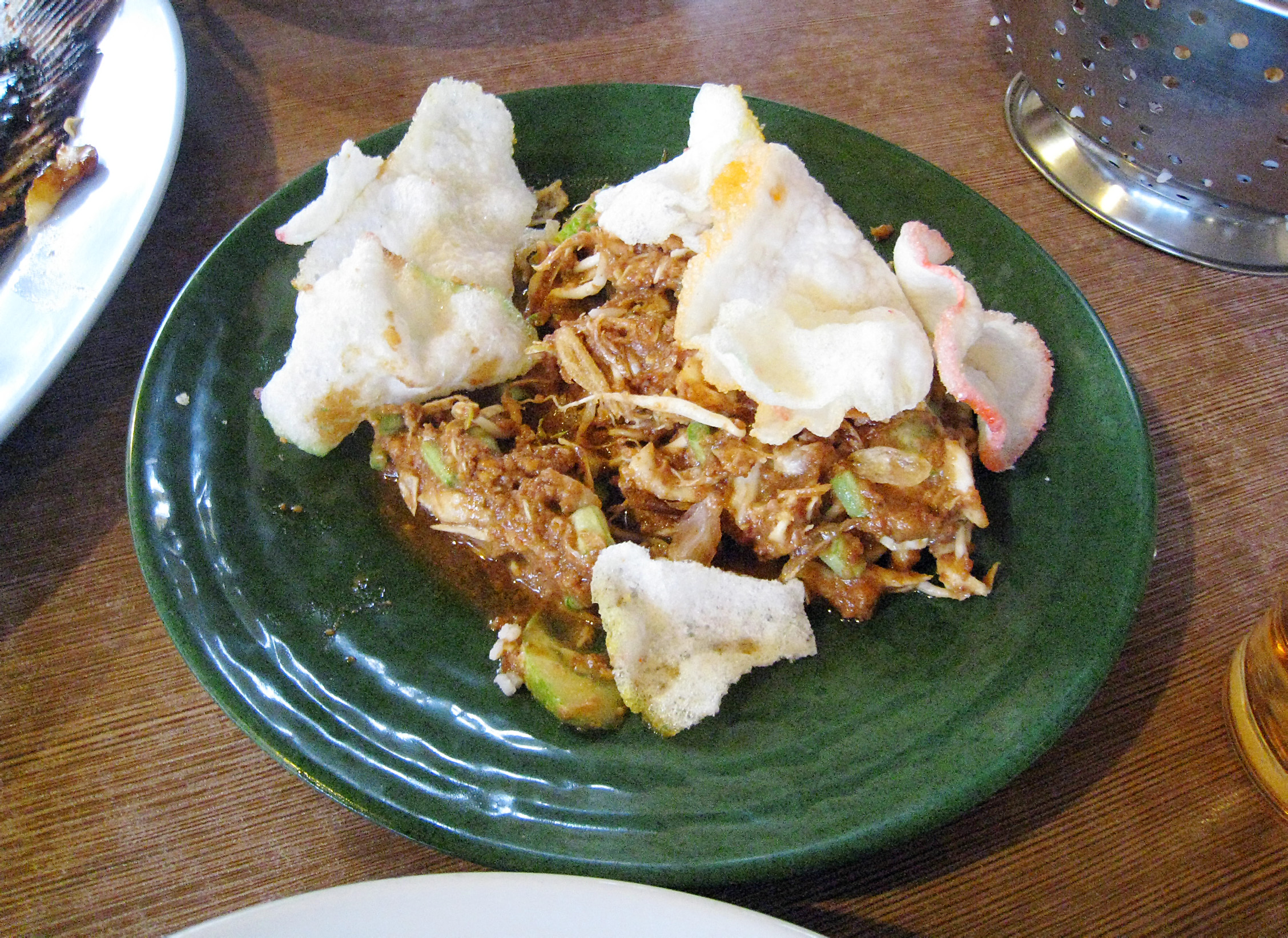 Karedok, raw vegetables in peanut sauce topped with krupuk bawang (onion crackers), a traditional Sundanese food in Laksana restaurant, Sangkanhurip, Kuningan, West Java.